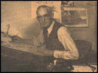 Photograph of Canadian cartoonist JImmy Frise at his drawing board